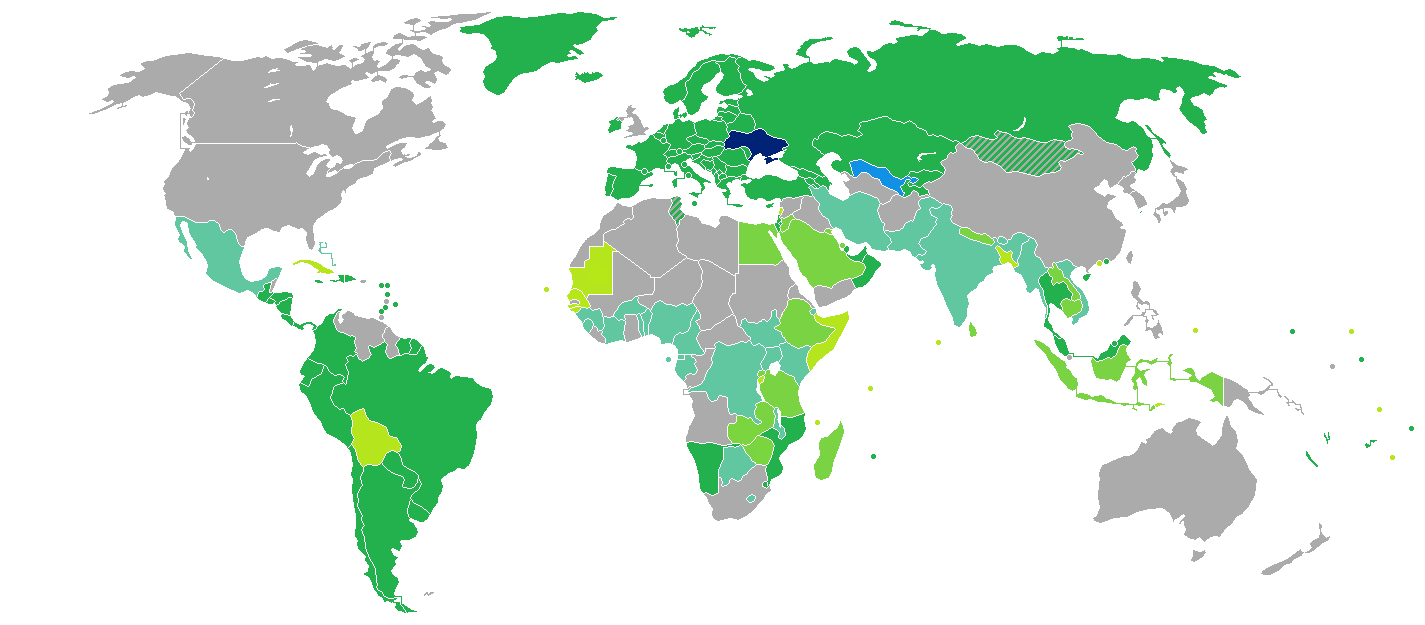 Visa requirements for Ukrainian citizens Ukraine Visa free access Visa on arrival eVisa Visa available both on arrival or online Visa required